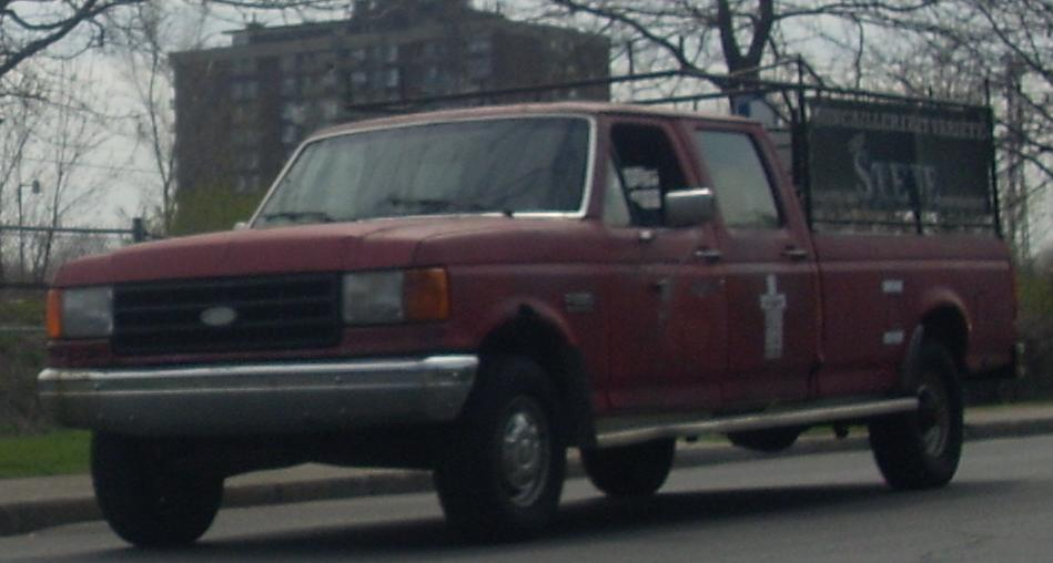 Ford F-250 photographed in Montreal, Quebec, Canada.